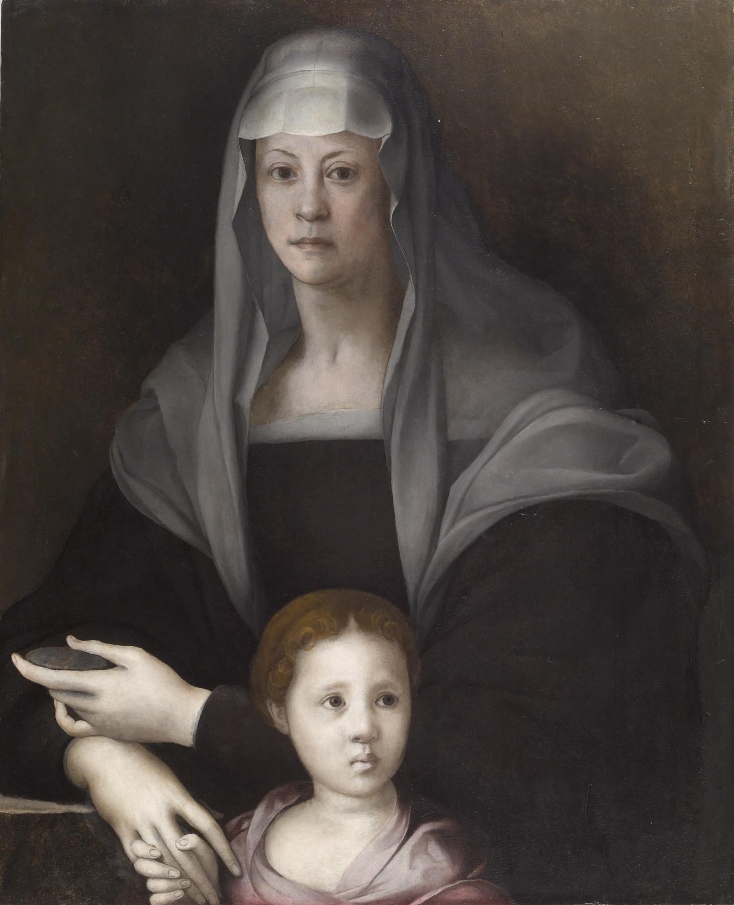 Pontormo (called by the name of his birthplace) was esteemed by the Medicis for his ability to capture the individuality of his sitters, while emphasizing their aristocratic demeanor. Maria Salviati was the wife of famous military leader Giovanni delle Bande Nere de' Medici (d. 1526) and the mother of Cosimo I (1519-1574), grand duke of Tuscany. The little girl holding her hand here is probably Giulia, a Medici relative who was left in Maria's care after the murder of the child's father, Duke Alessandro de' Medici (1511-1537). As Alessandro was born of a liaison between a Medici cardinal and a servant who, tradition has it, was African, this formal portrait may be the first of a girl of African ancestry in European art. The child was painted over sometime during the 19th century but was rediscovered during a 1937 cleaning of the work. Although Maria still wears the clothing of mourning for her deceased husband, Pontormo's elegant style conveys her aristocratic grace through her impossibly long fingers and her fashionably pale color (indicative of a life led out of the sun), which she shares with Giulia. This painting will be featured in the Walters' upcoming exhibition Face to Face, the African Presence in Renaissance Europe (opening October 2012).